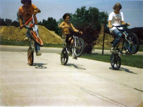 bmx bike summer